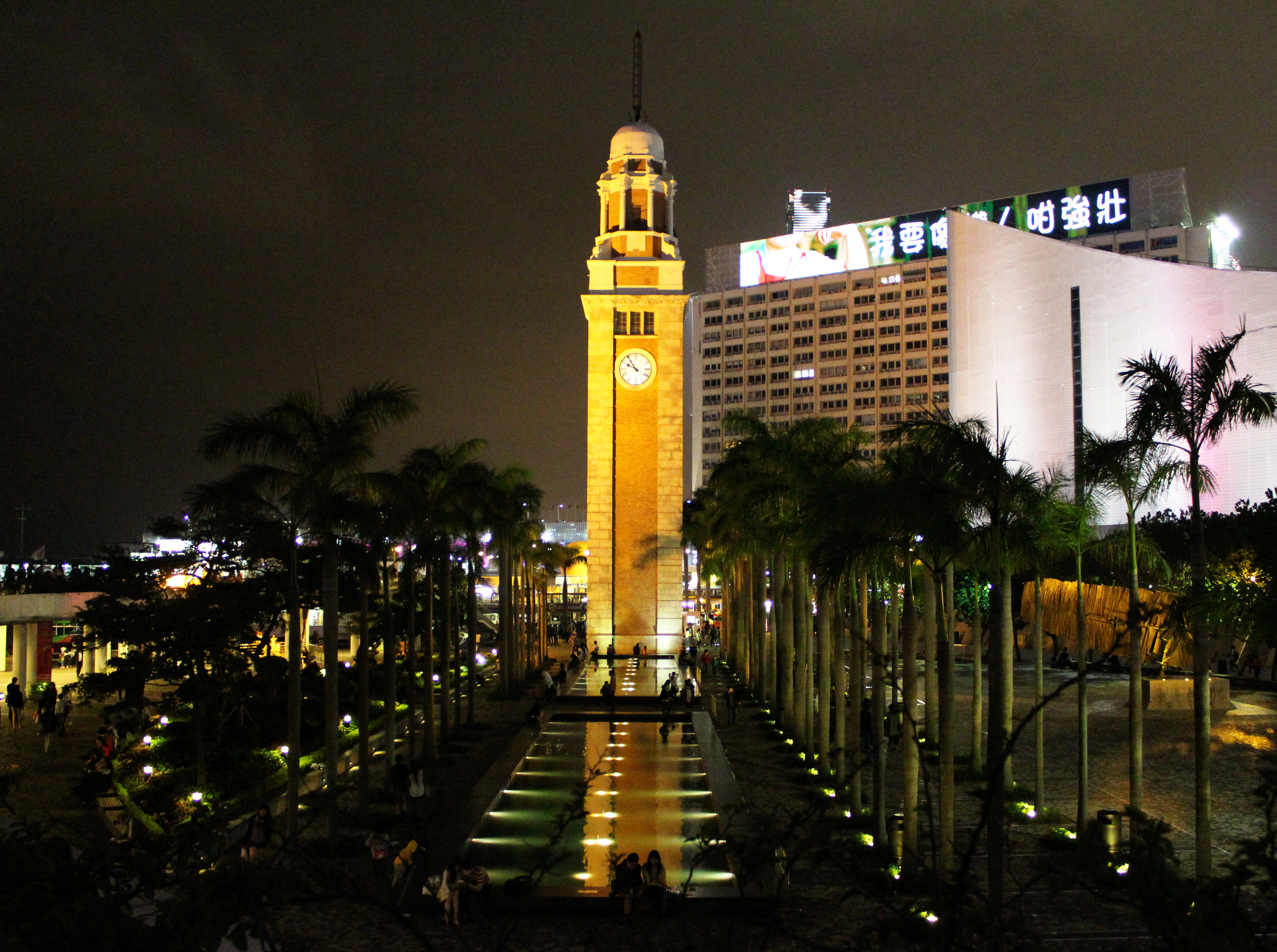 Tsim Sha Tsui Clock Tower is a landmark in Hong Kong. It is located on the southern shore of Tsim Sha Tsui, Kowloon.